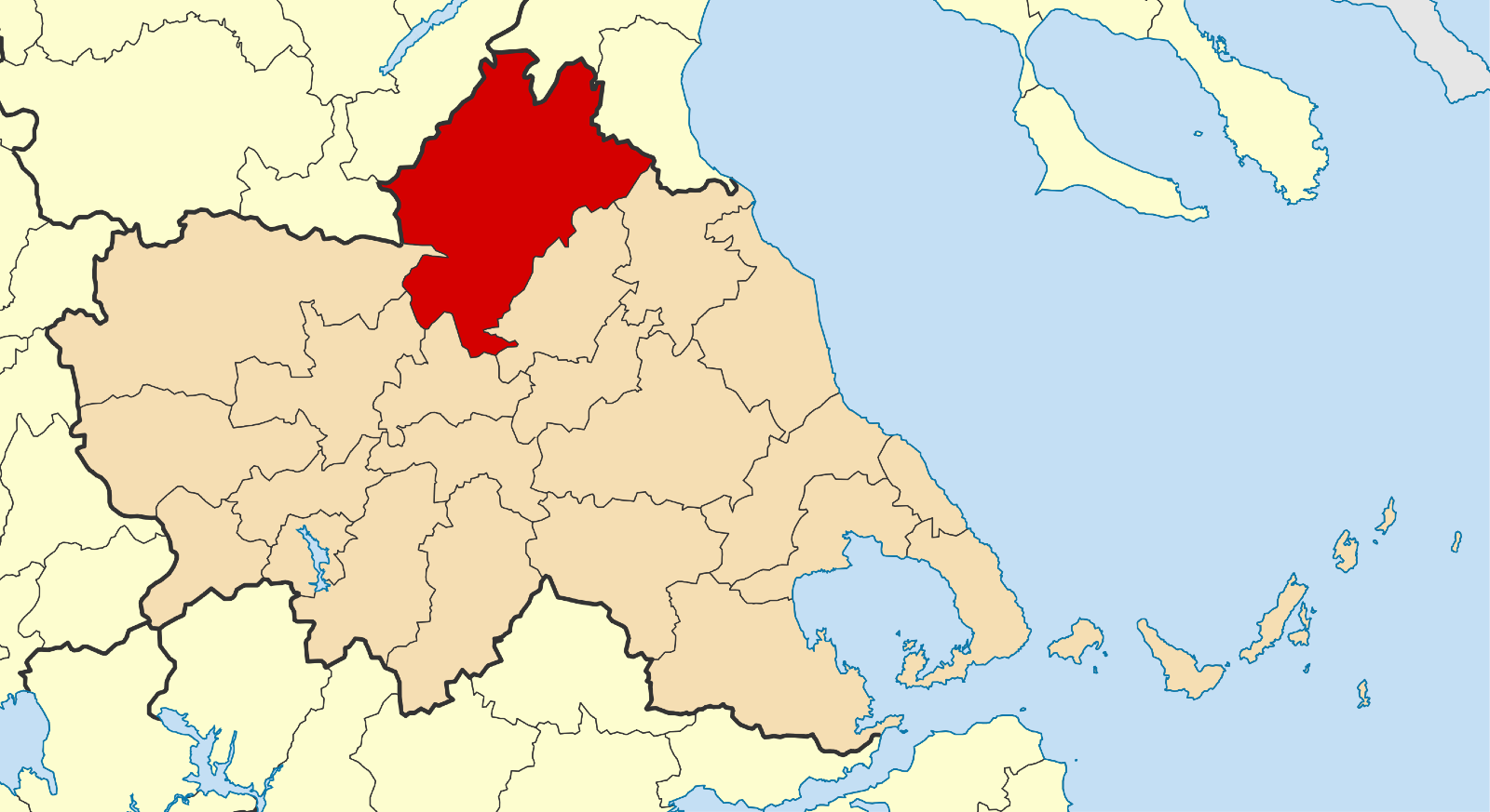 Locator map for Elassona municipality in Greek region Thessaly (2011)